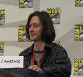 A cropped photo of American voice actor and writer Mr. Lawrence sitting on the SpongeBob SquarePants panel at the 2009 San Diego Comic-Con